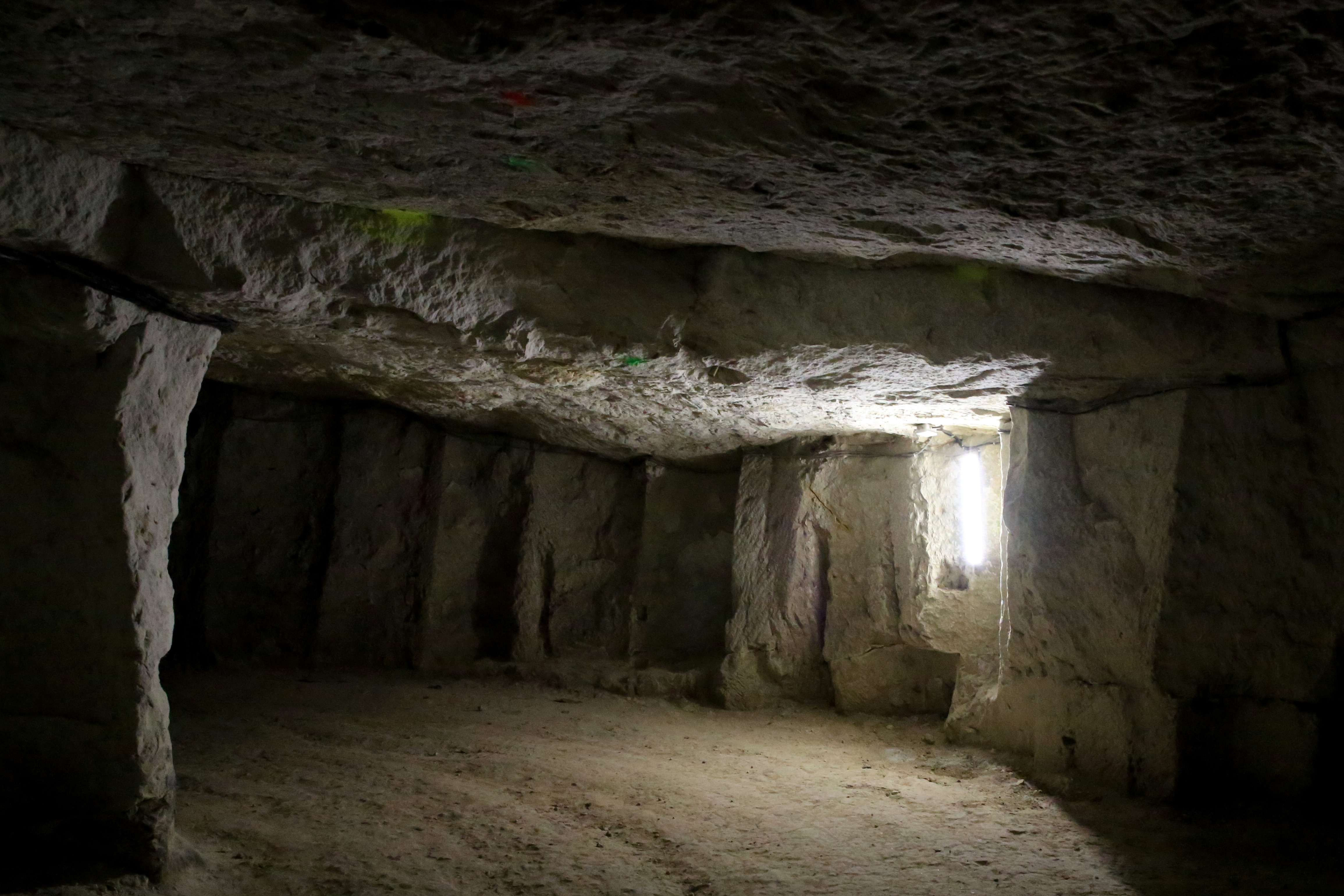 Tufa mines in Bourré, the place where building-stones for Loire castles came from.